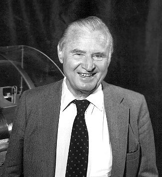 Hans Von Ohain. Lab Chief Scientist in the 70's. Inventor of the first jet engine.